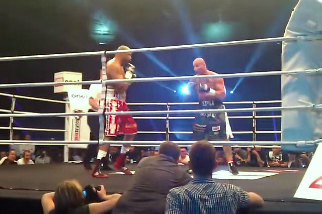 Jameel McCline (left) vs Artur Szpilka (right).